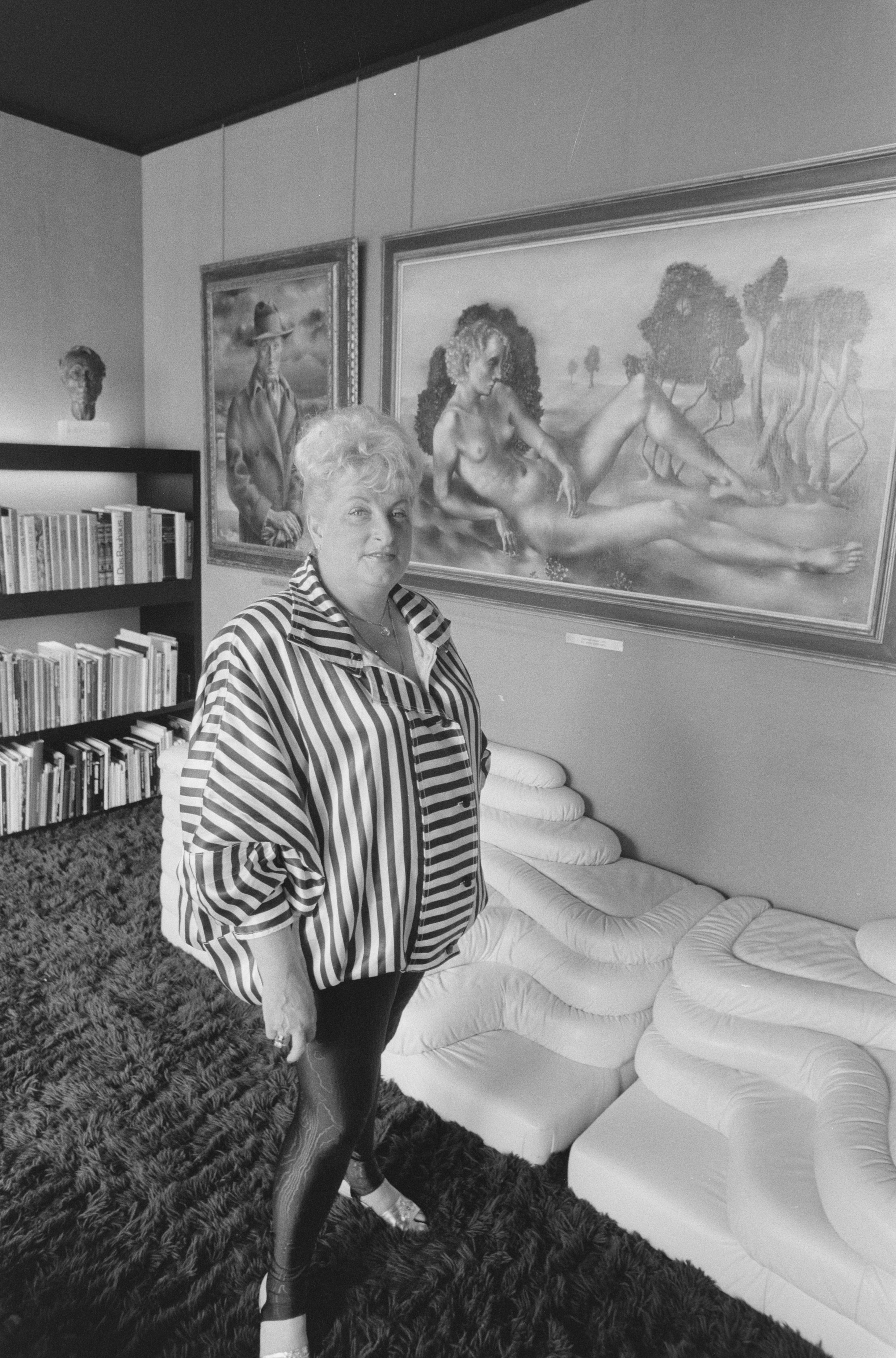 Dutch business woman Miep Brons in front of three artworks in her house. The Netherlands, 1987